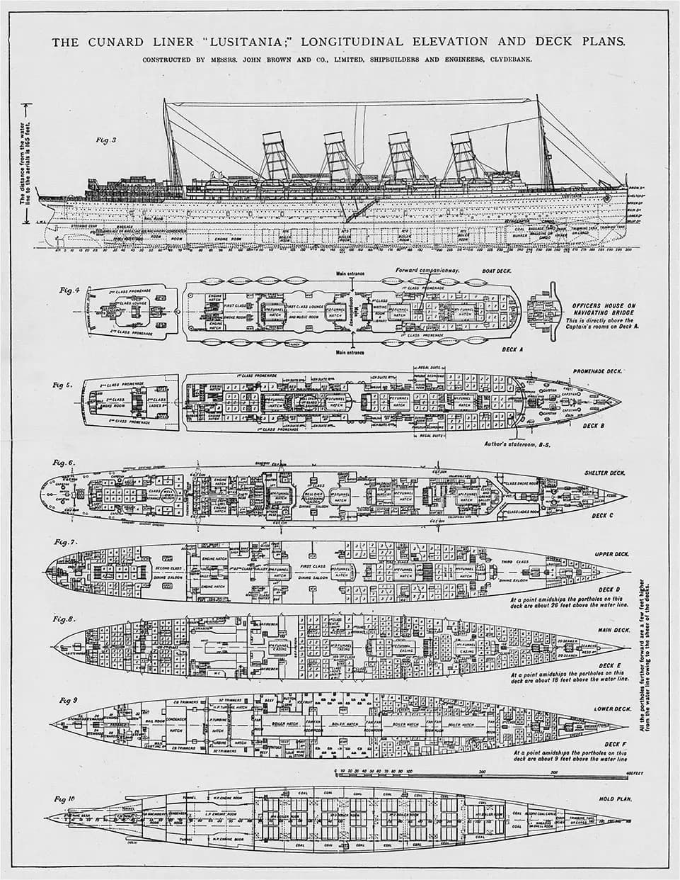 Lusitania's Deck Plans